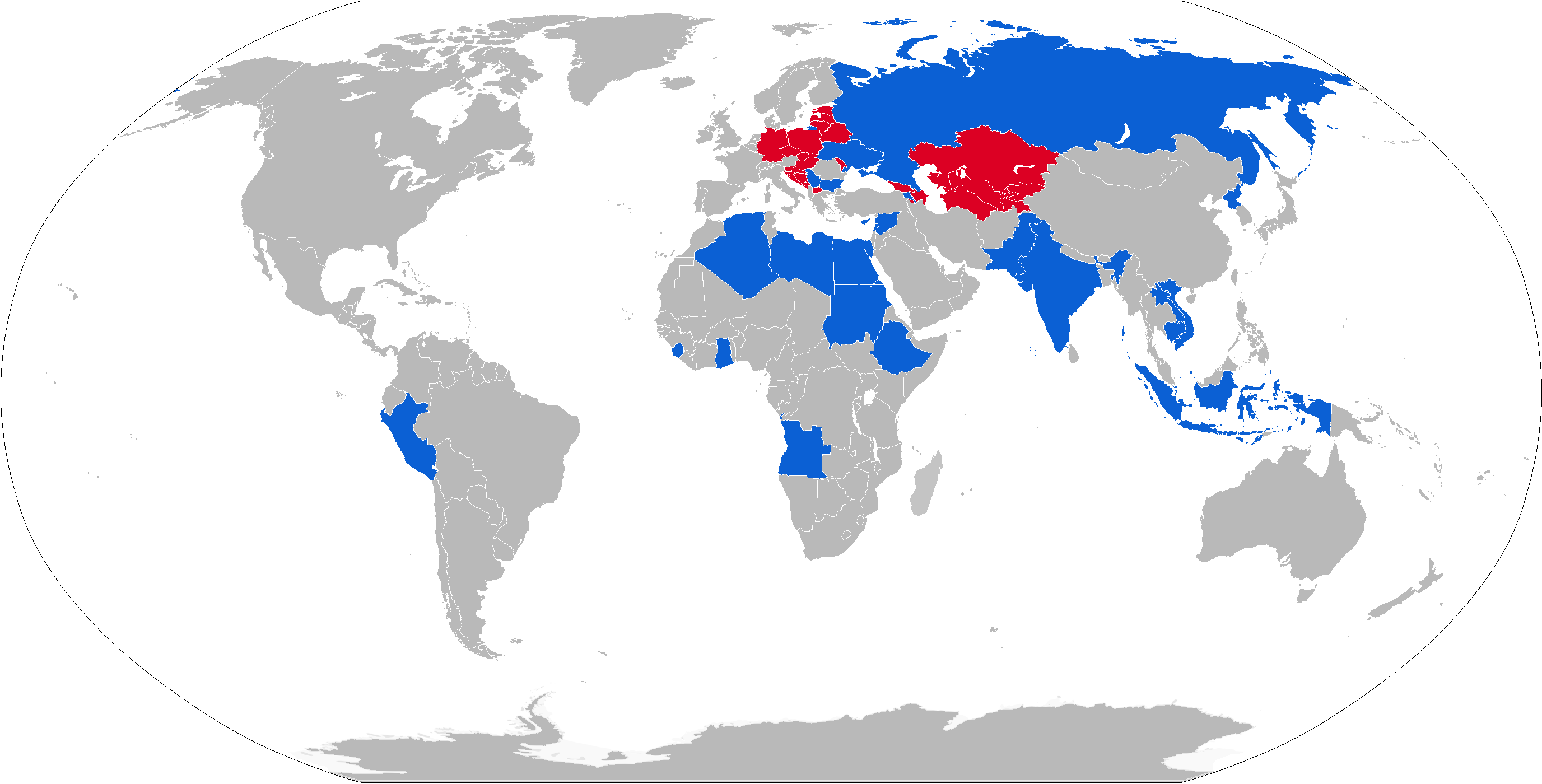 Map with 9K34 operators in blue with former operators in red